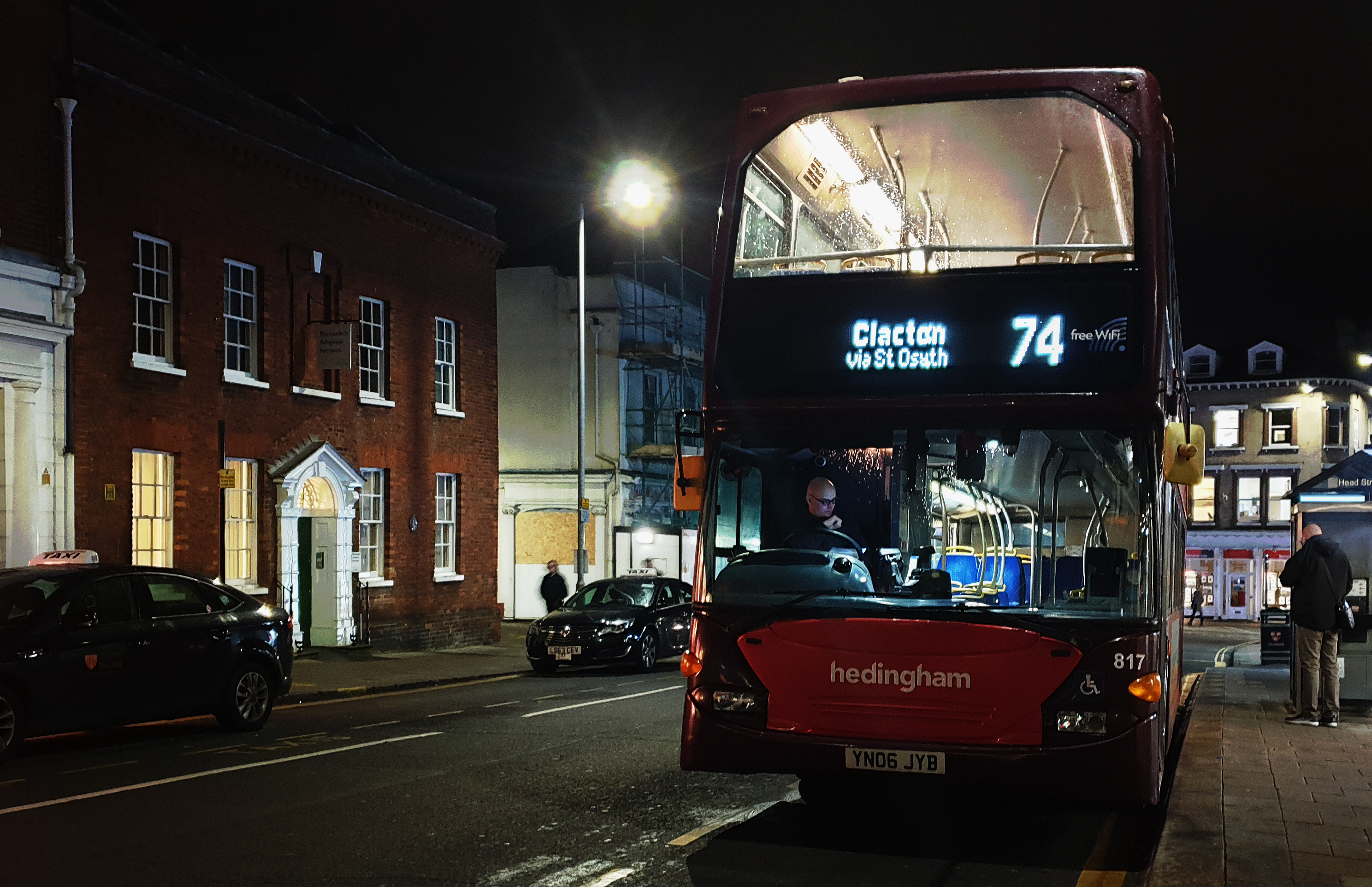 74 Bus at Colchester in the first week of service.